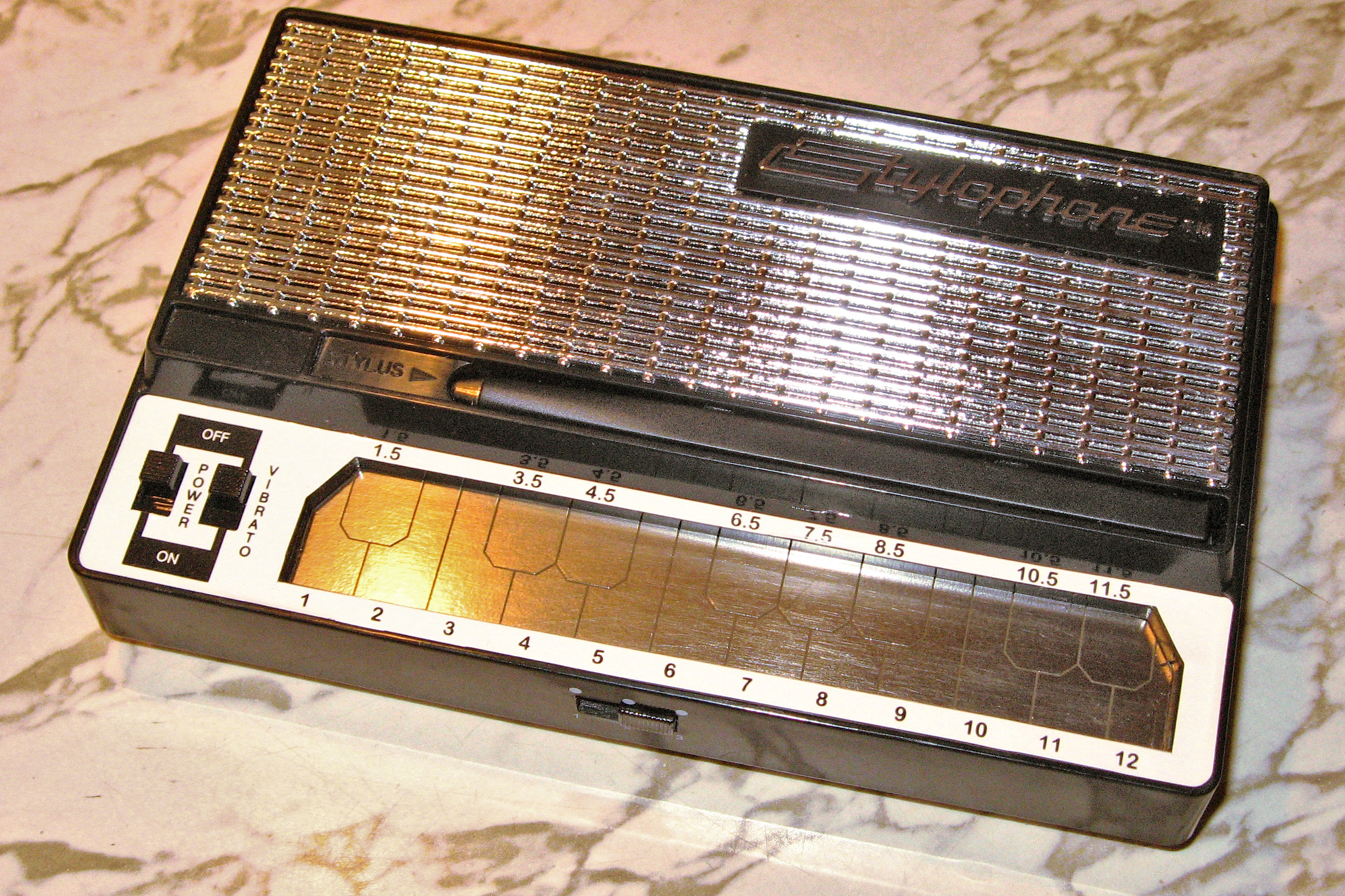 New Dubreq Stylophone (2007 relaunch)